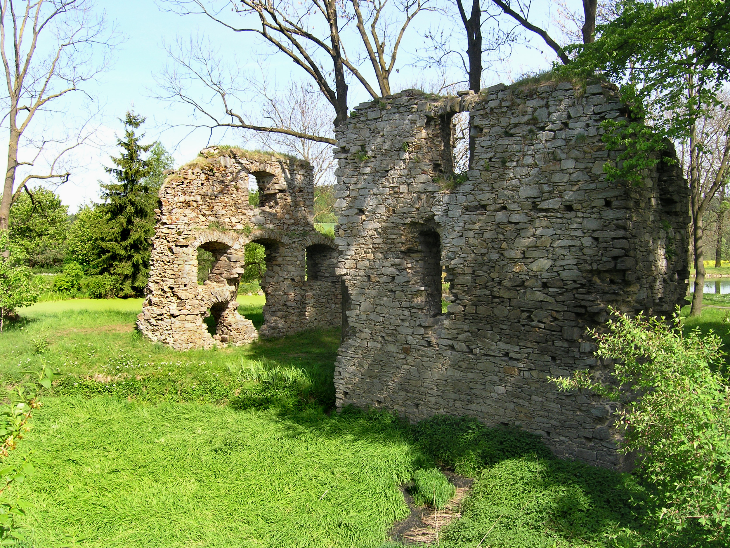 Kouty Castle in Kouty, part of Smilkov village, Czech Republic